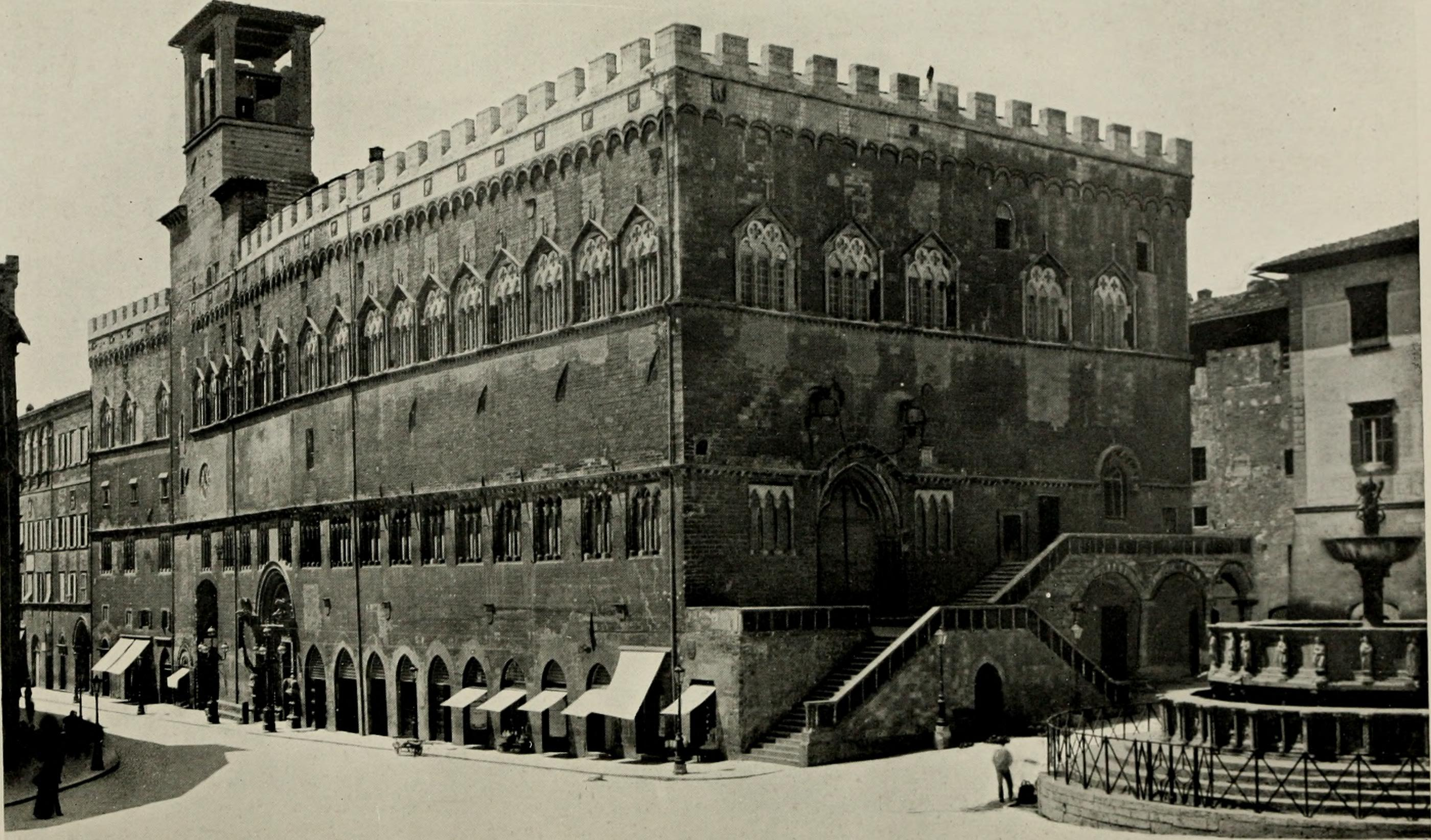 Title: Palio and ponte; an account of the sports of central Italy from the age of Dante to the XXth century Year: 1904 (1900s) Authors: Heywood, W. (William), 1857-1919 Subjects: Sports -- Italy Italy -- Social life and customs Publisher: London, Methuen & co Text Appearing Before Image: ' Text Appearing After Image: THE BATTAGLIA DE SASSI OF PERUGIA On the 29th day of October, the said Fra Bernardinocaused all the said diabolical things to be brought into thepiazza; and there he caused to be built as it were a castleof wood, between the fountain of the piazza and the BishopsPalace, wherein were put all the aforesaid things ; and there-after, on Sunday, the 30th day of the said month, when thepreaching was over, he caused the same to be set on fire;and so great was the fire that words cannot describe it;and therein were burned things of passing great price ; ^worth, as Fra Bernardino himself declared, when preachingin Siena, two years later, many thousand florins.^ Above all, the Saint sought to induce the Perugians toabandon their murderous game—la battaglia che vi si faceva,eke era cosa tanto stermifiata e grande faccienda. Here, however, all his eloquence was needed. He tellsus that it was abolished with extreme difficulty—con penagrandissima? Yet, in the end, it was abolished, inkerendodoc